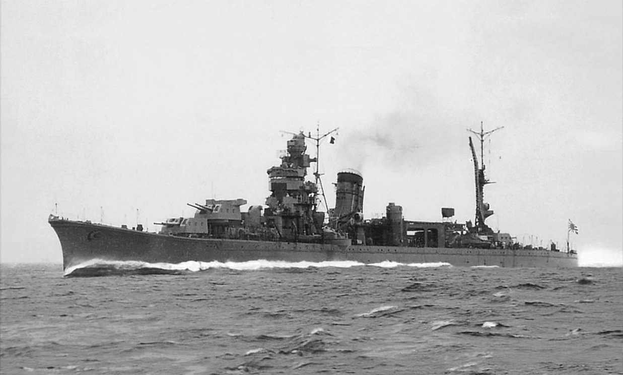 Japanese light cruiser Noshiro in Tokyo Bay in July 1943.